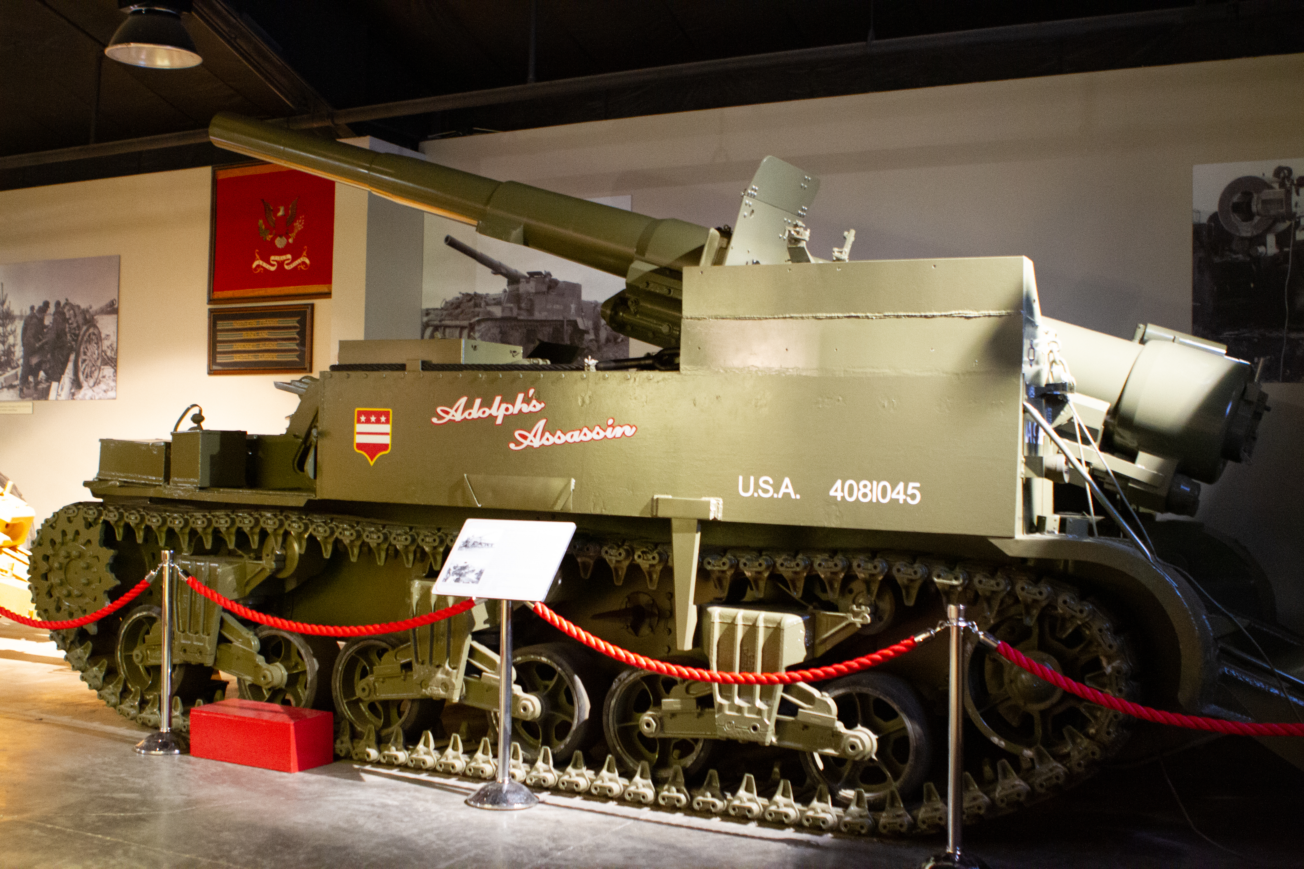 The only surviving M12 on display as "Adolph's Assassin" at the U.S. Army Artillery Museum on Ft. Sill, OK.